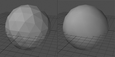 Sphere shaded with flat and Gouraud shading